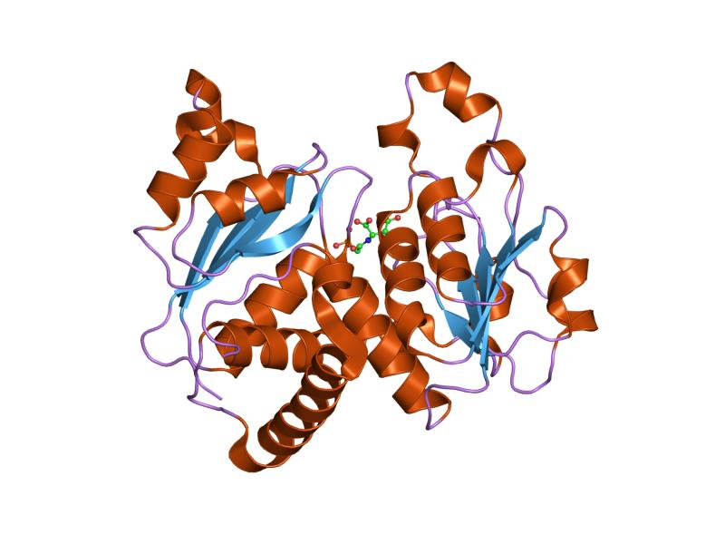 Cartoon representation of the molecular structure of protein registered with 1ml4 code.